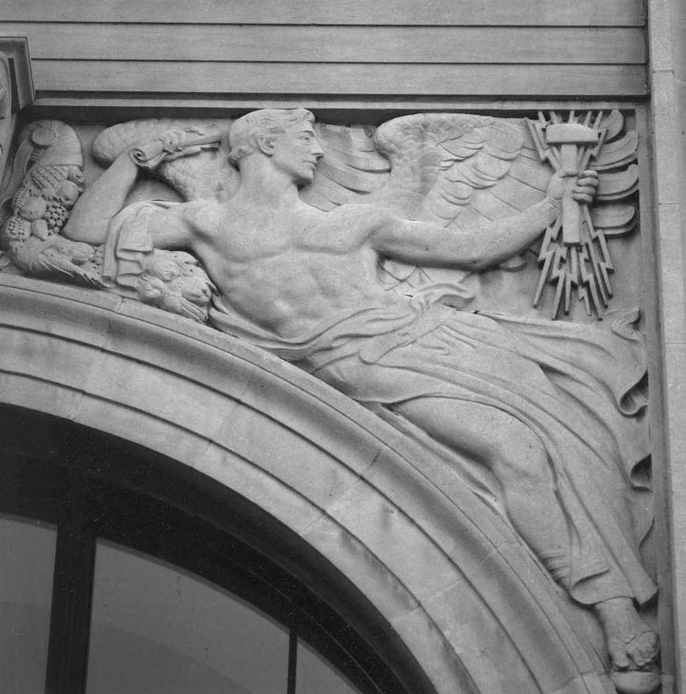 Weinman in Davenport